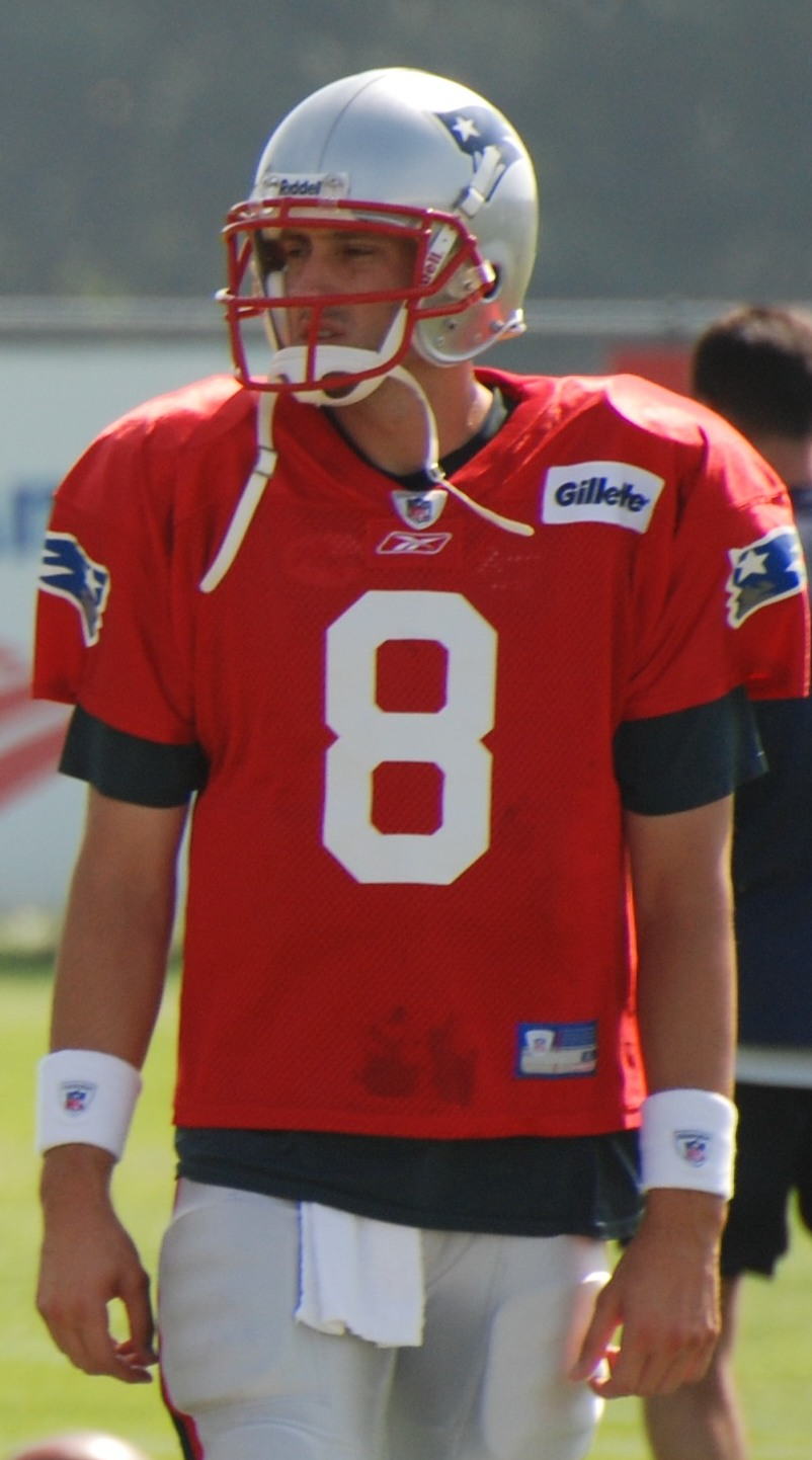 Quarterback, Brian Hoyer, at New England Patriots training camp in 2009.